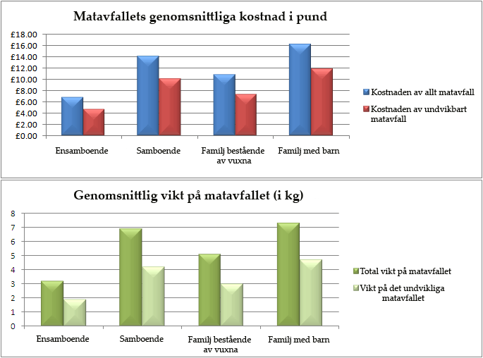 A reproduction and translation of File:Meanfoodcost.png